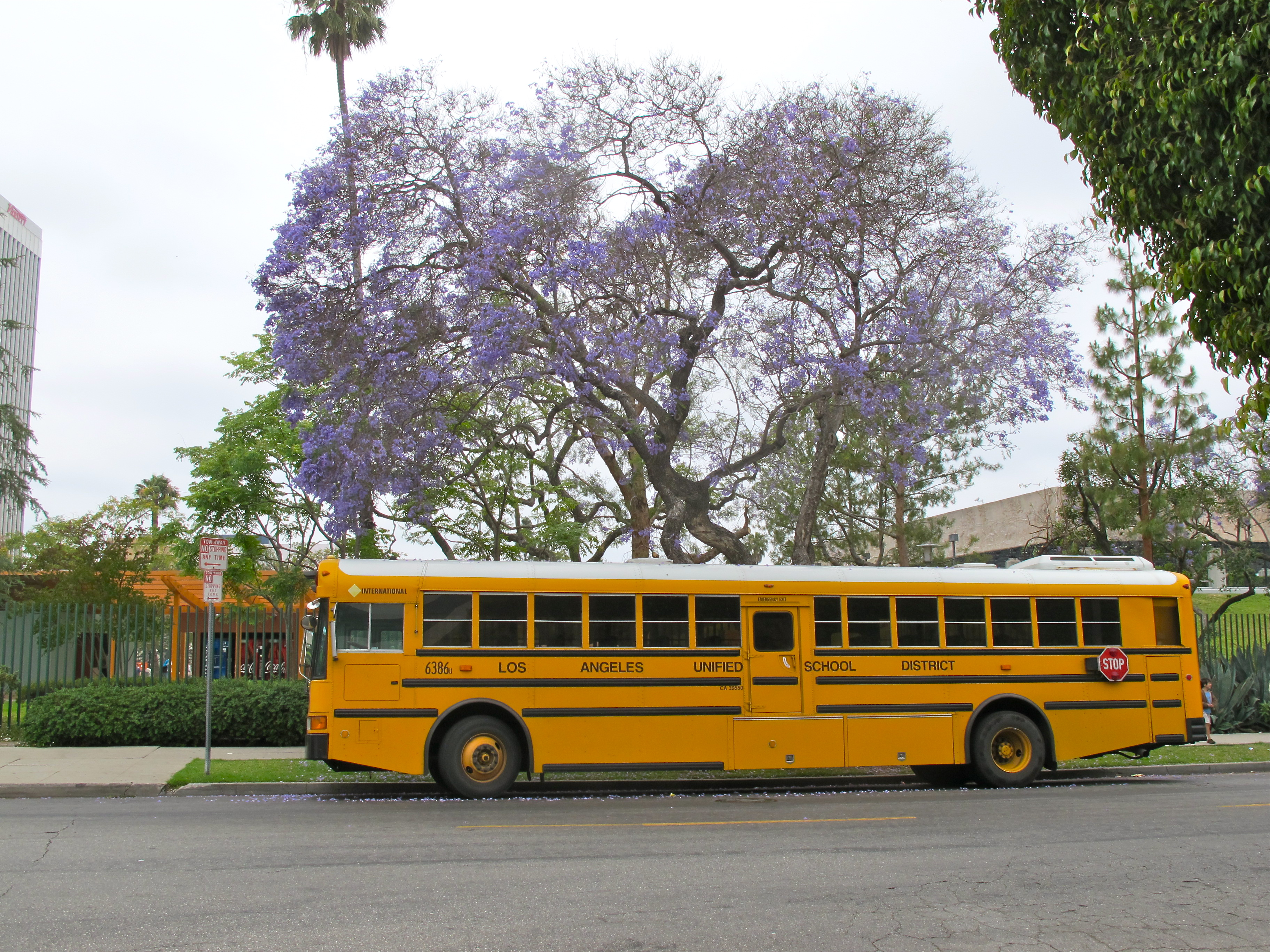 A side view of a school bus operated by the Los Angeles Unified School District. The bus is a 2001-2002 International (AmTran) RE on an International 3000RE chassis.